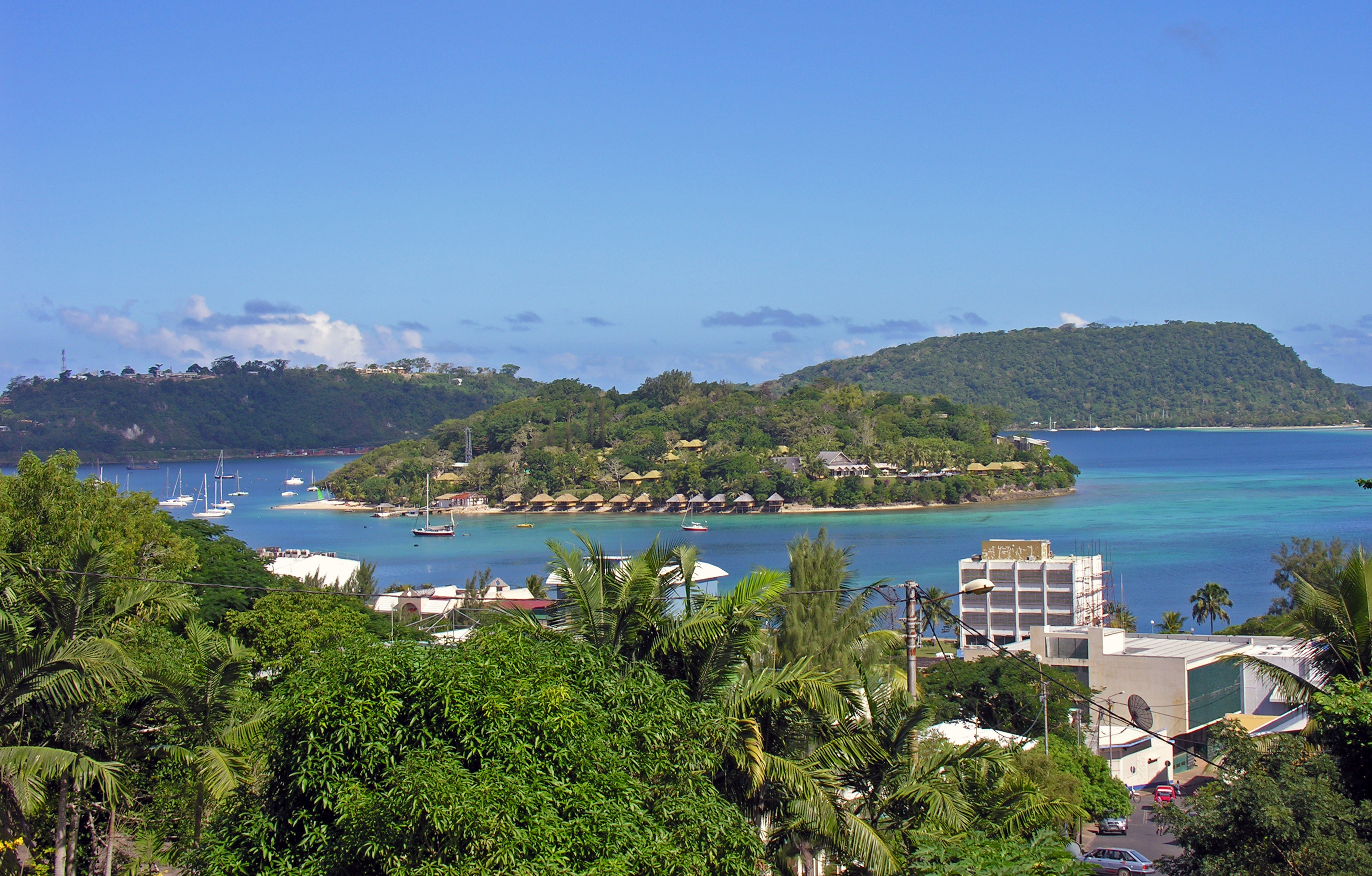 Port Vila, Vanuatu, from the War Memorial, 1 June 2006